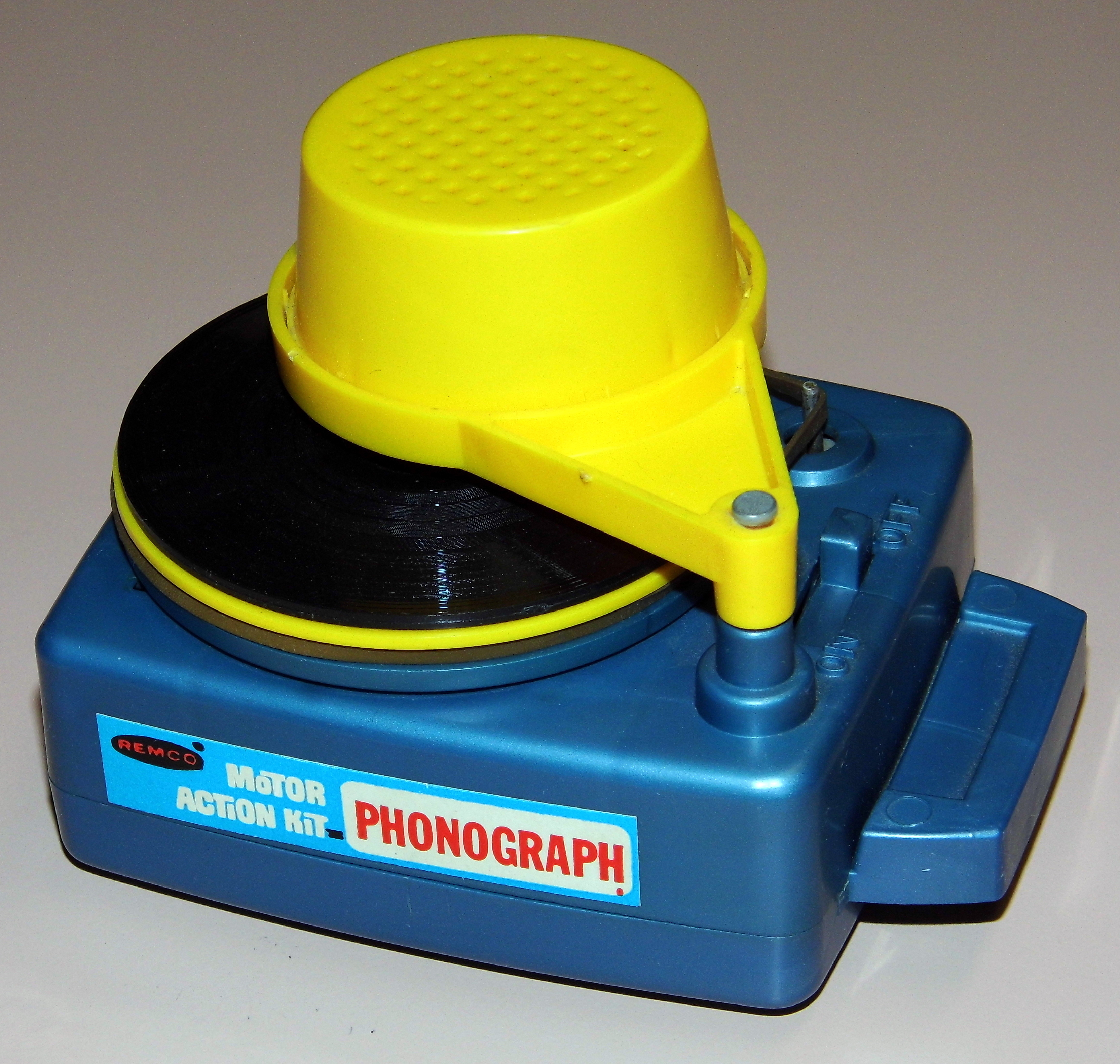 Vintage Remco Motor Action Kit Toy Phonograph, Battery Operated, "Rubber Band Drive", Made In USA